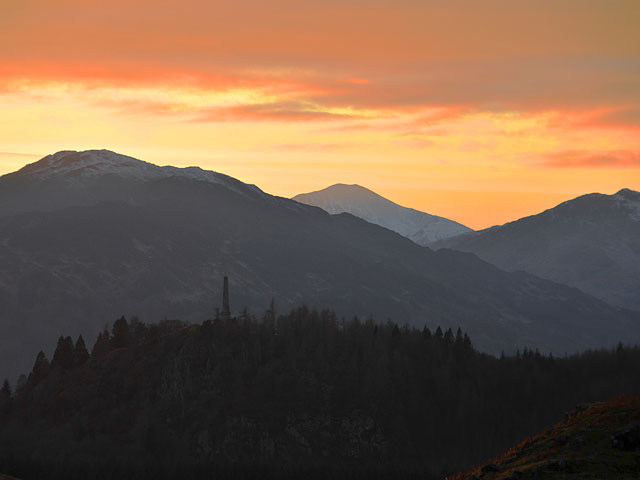 Lord Melville's Monument On Dun More, to the north of Comrie. Mór Bheinn behind, with Ben Vorlich in the far distance.